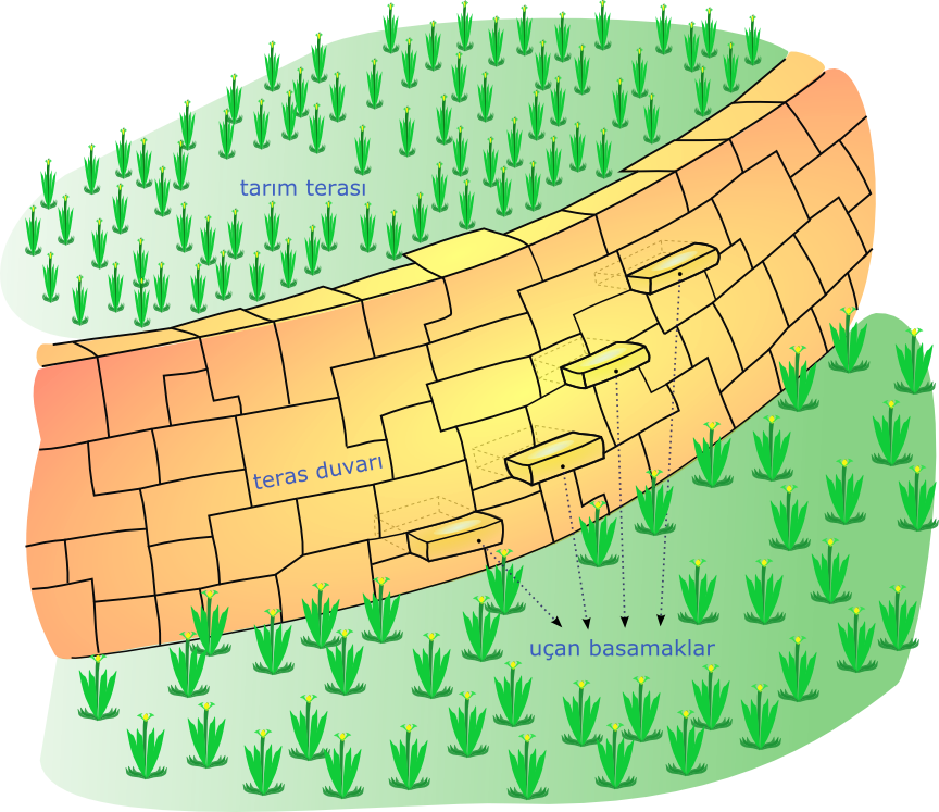 Inca agricultural terrace system and showing the flying stairs on the terrace wall.